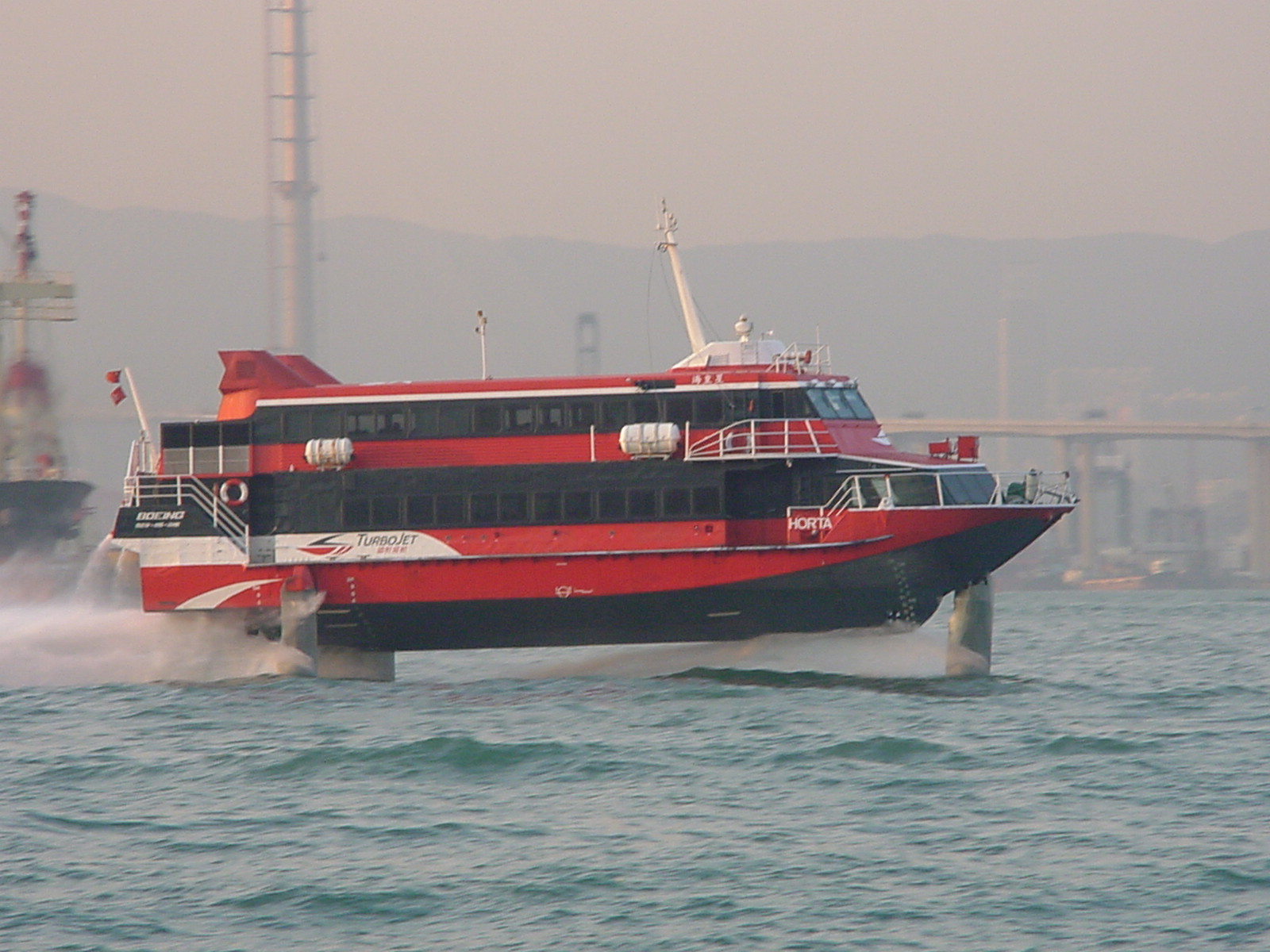 TurboJET's Horta Boeing 929 (Jetfoil) hydrofoil